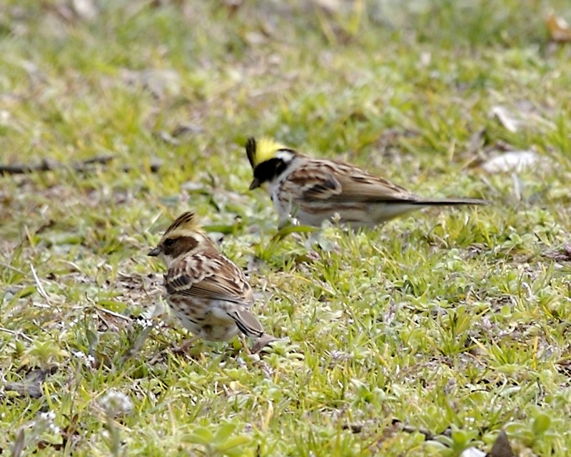 Yellow-throated Bunting, Emberiza elegans - pair Kyoto Botanical Gardens 20th. March 2007